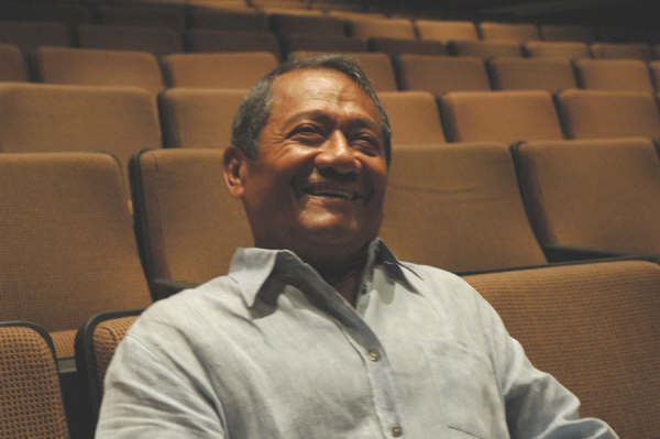 Imagen de la periodista Martha López Huan